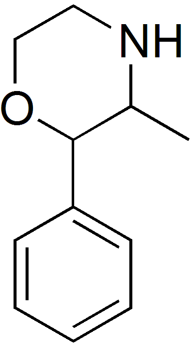 Phenmetrazine